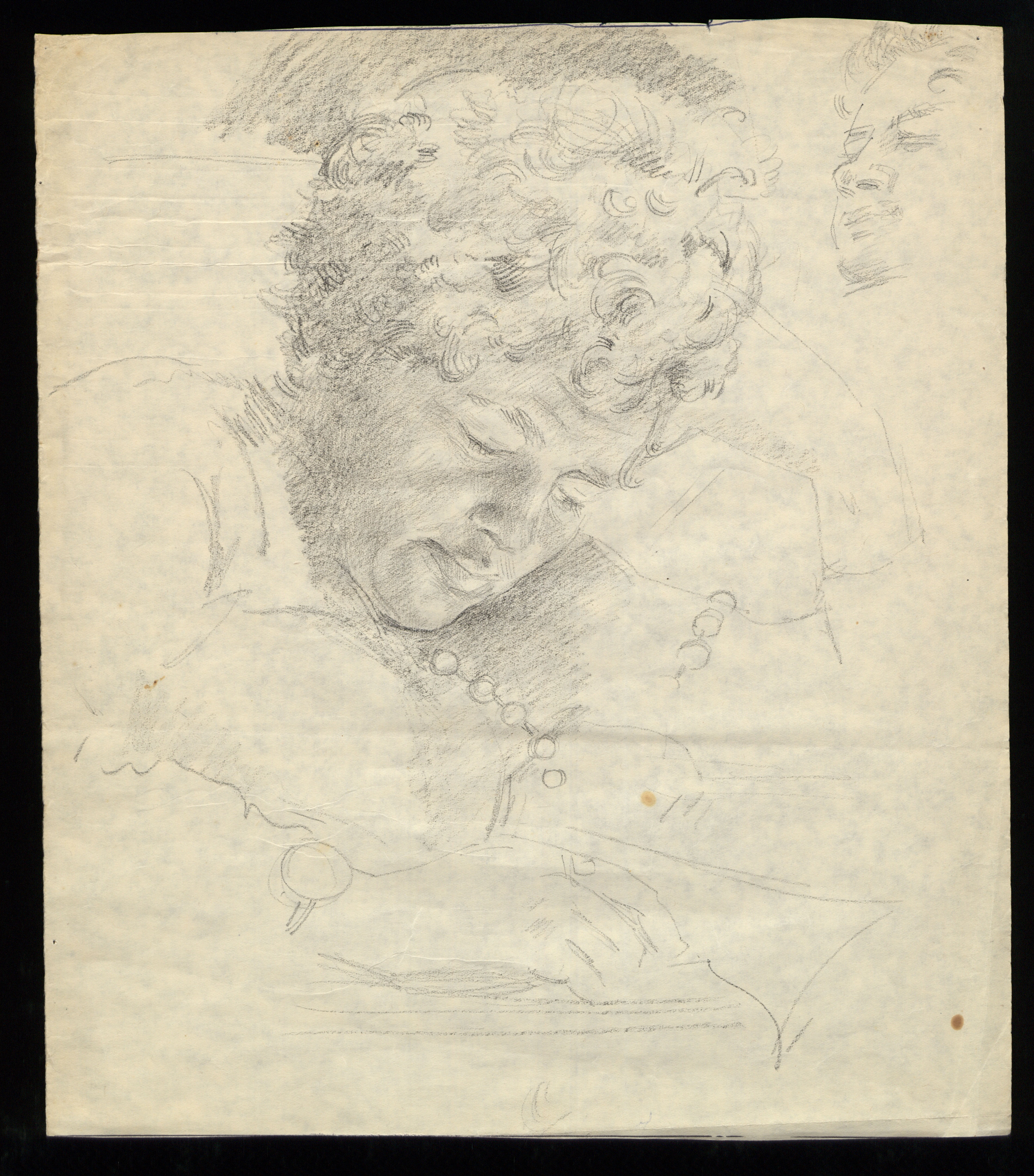 Portrait of Cécile Ines Loos (1883-1959), drawing